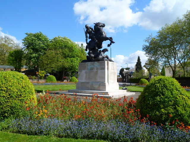 Grade II listed War Memorial, St John's Wood, London